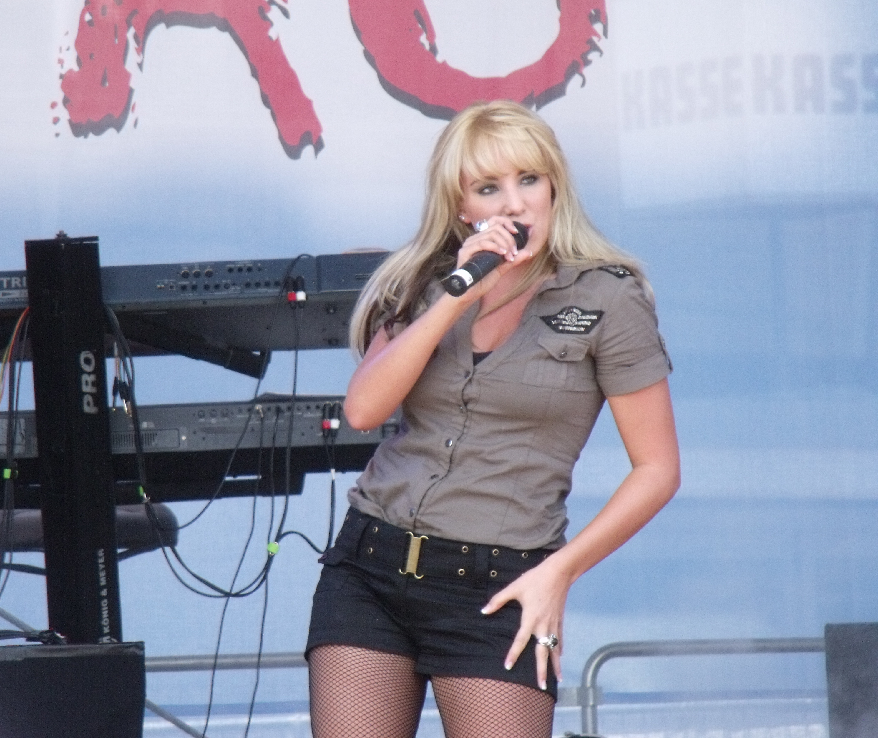 Annemarie Eilfeld